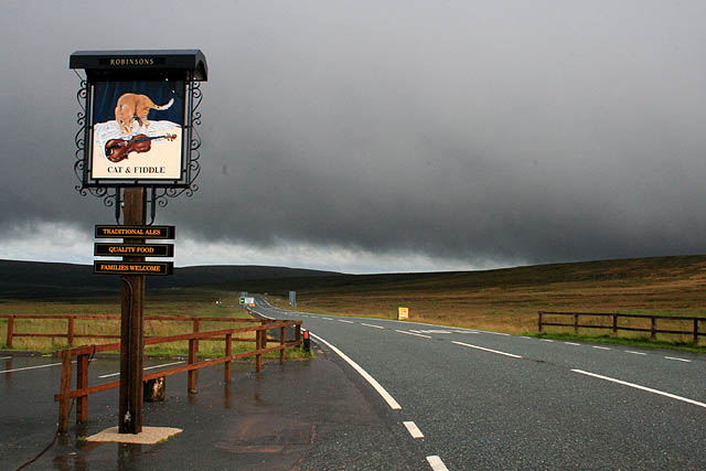 The A537 and the Sign of the Cat and Fiddle. Glorious July weather in the Peak District.